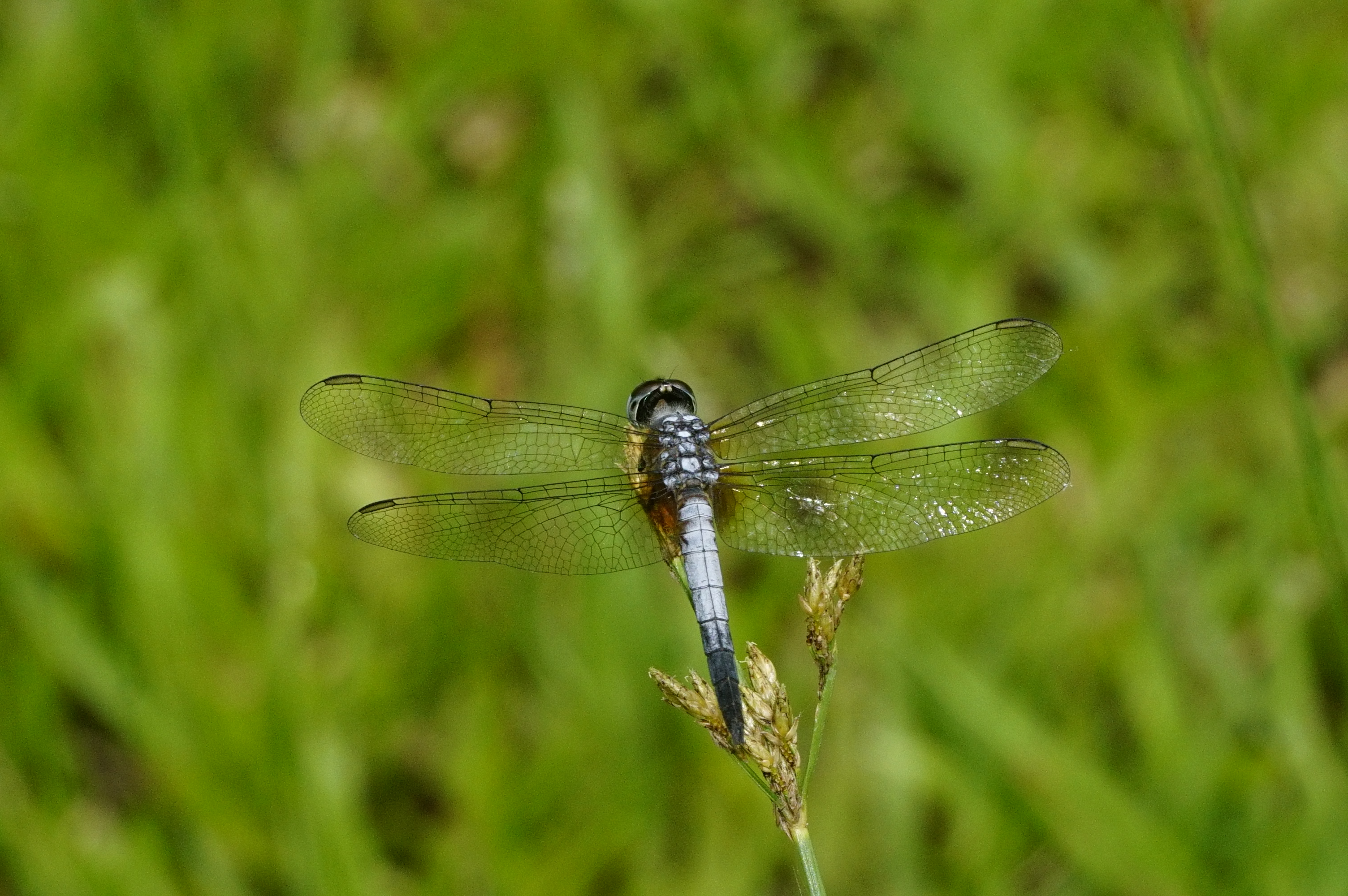 Brachydiplax chalybea